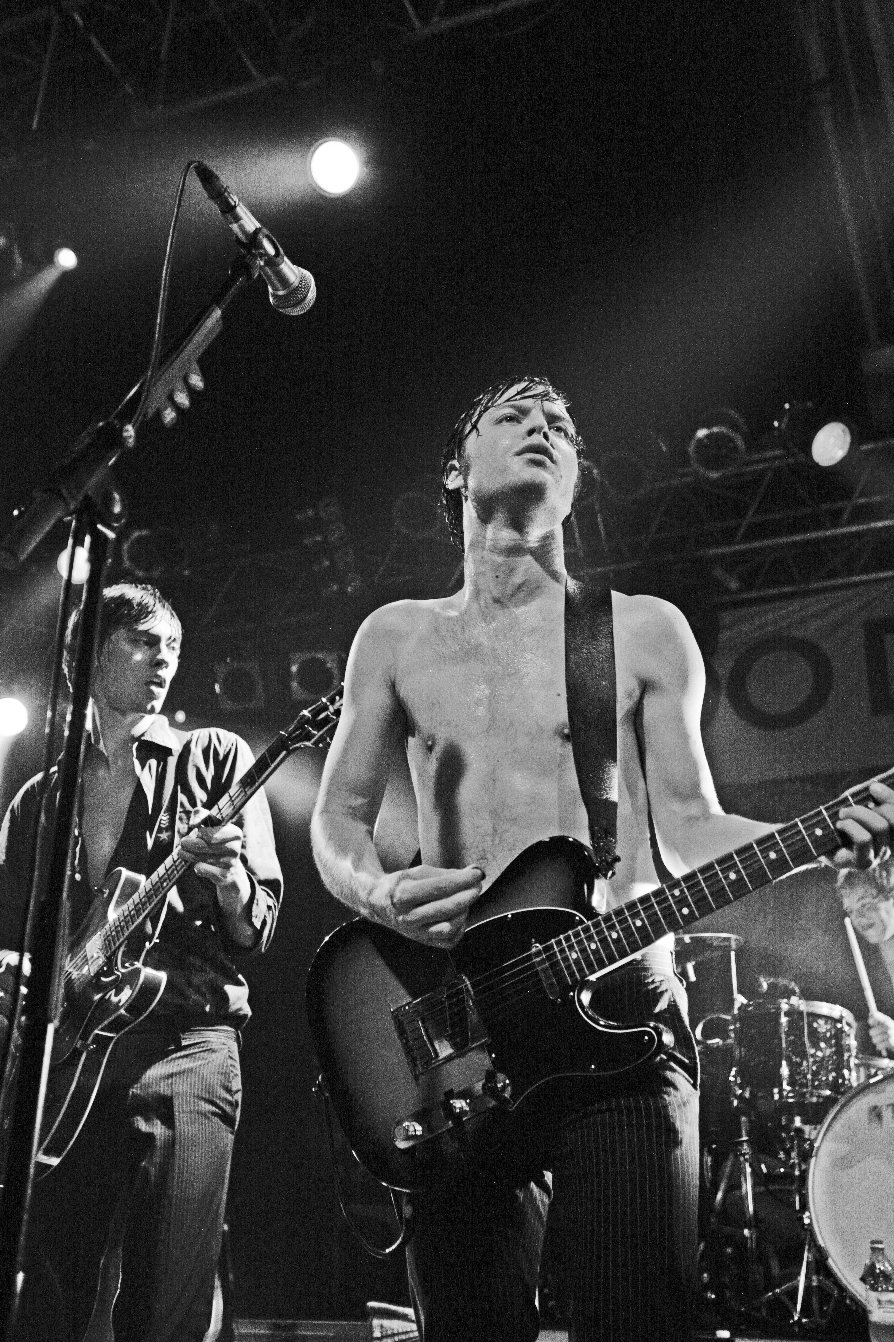 Björn Dixgård and Gustaf Norén from Mando Diao